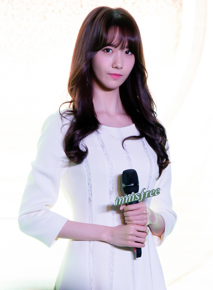 YoonA at Innisfree's event in Shanghai on January 15, 2015.